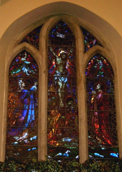 Stained glass window in Bohermeen RC Church, Ireland. Not created by Harry Clarke but possibly by the Harry Clarke Studios.